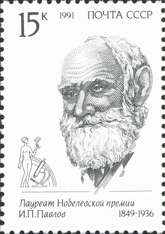 A USSR stamp, Nobel Prize Winners in Physiology or Medicine Date of issue: 14th May 1991. Designer: Yury Artsimenev. Michel catalogue numbers: 6197-6199. 15 K. multicoloured. Portrait of I. P. Pavlov, 1849-1936. (medicine, 1904).